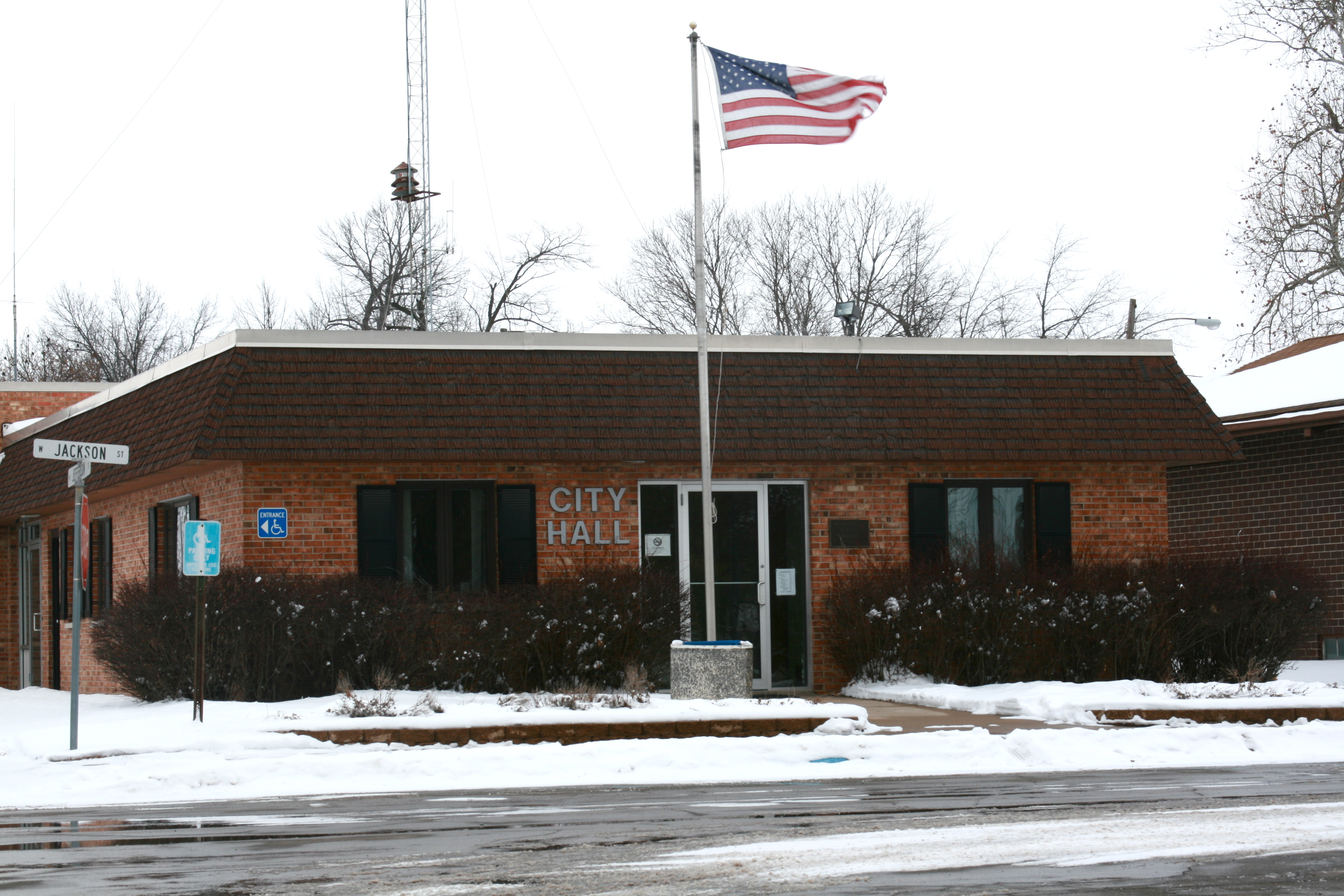 City Hall of Pleasantville, Iowa, located in the downtown square